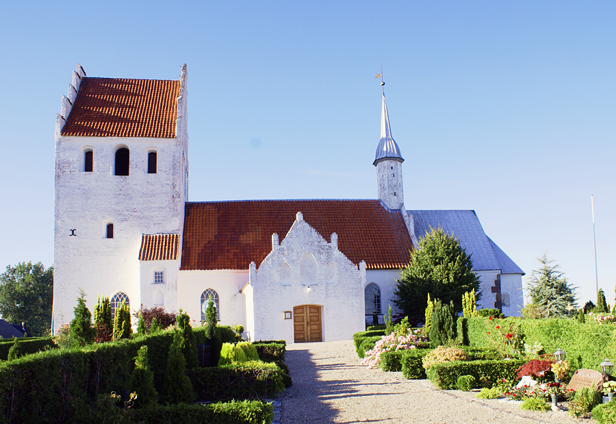 Ullerslev Church in the village Ullerslev (Nyborg Commune), Funen, Denmark.